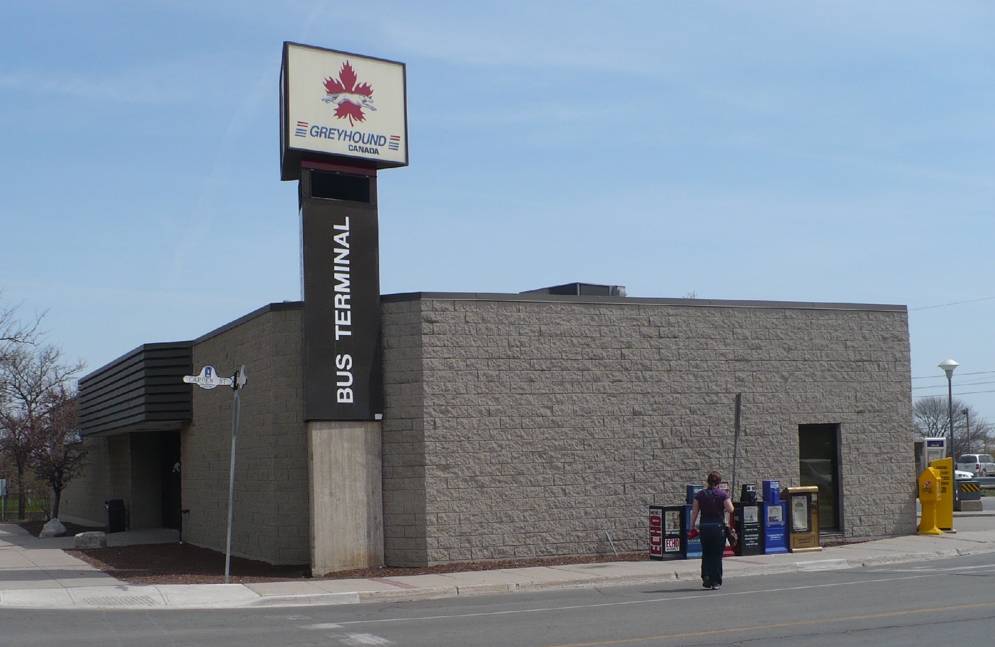 Guelph Bus Terminal, operated by Greyhound and also used by GO Transit. Located at 141 MacDonell Street, Guelph, Ontario.